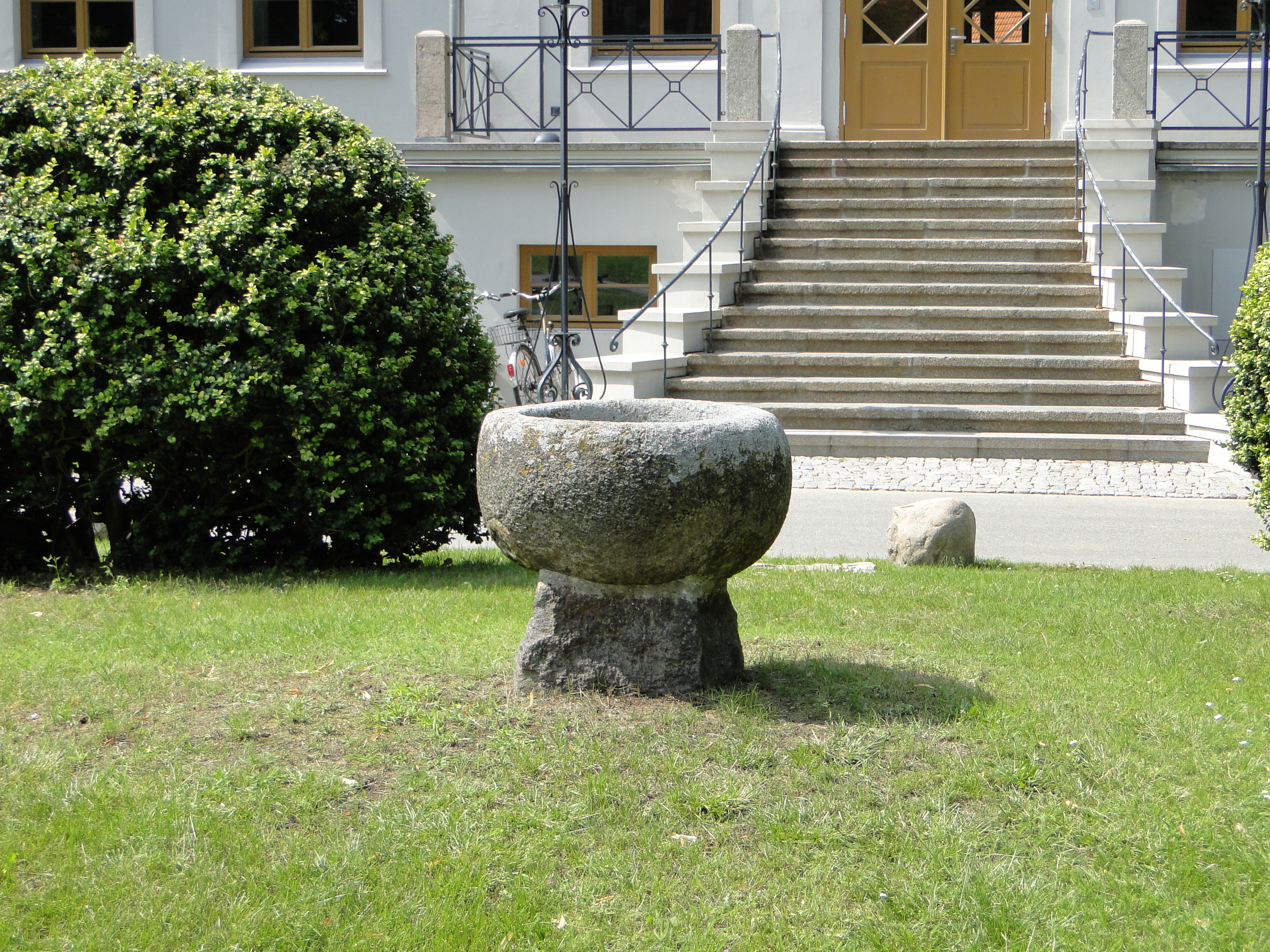 Baptismal font in front of Klosterhauptmannshaus in Dobbertin, district Parchim, Mecklenburg-Vorpommern, Germany